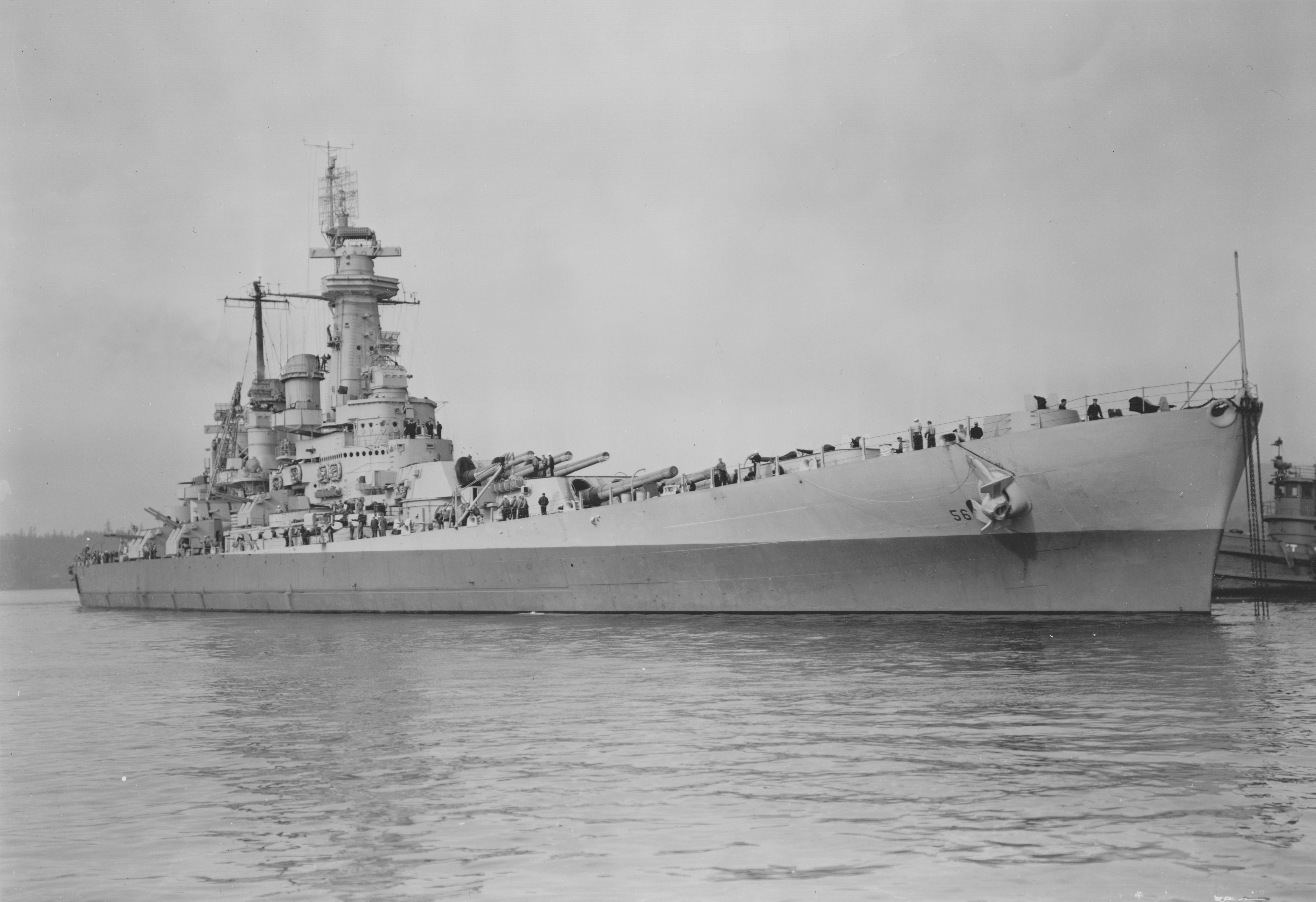 View of the USS Washington in the Puget Sound Navy Yard, shortly after the damage from the collision with the USS Indiana was repaired. Box: 19LCM, BB-55 to BB-56; Folder: H / BS 63997 - 64004 BS 63999; 19-N-63999